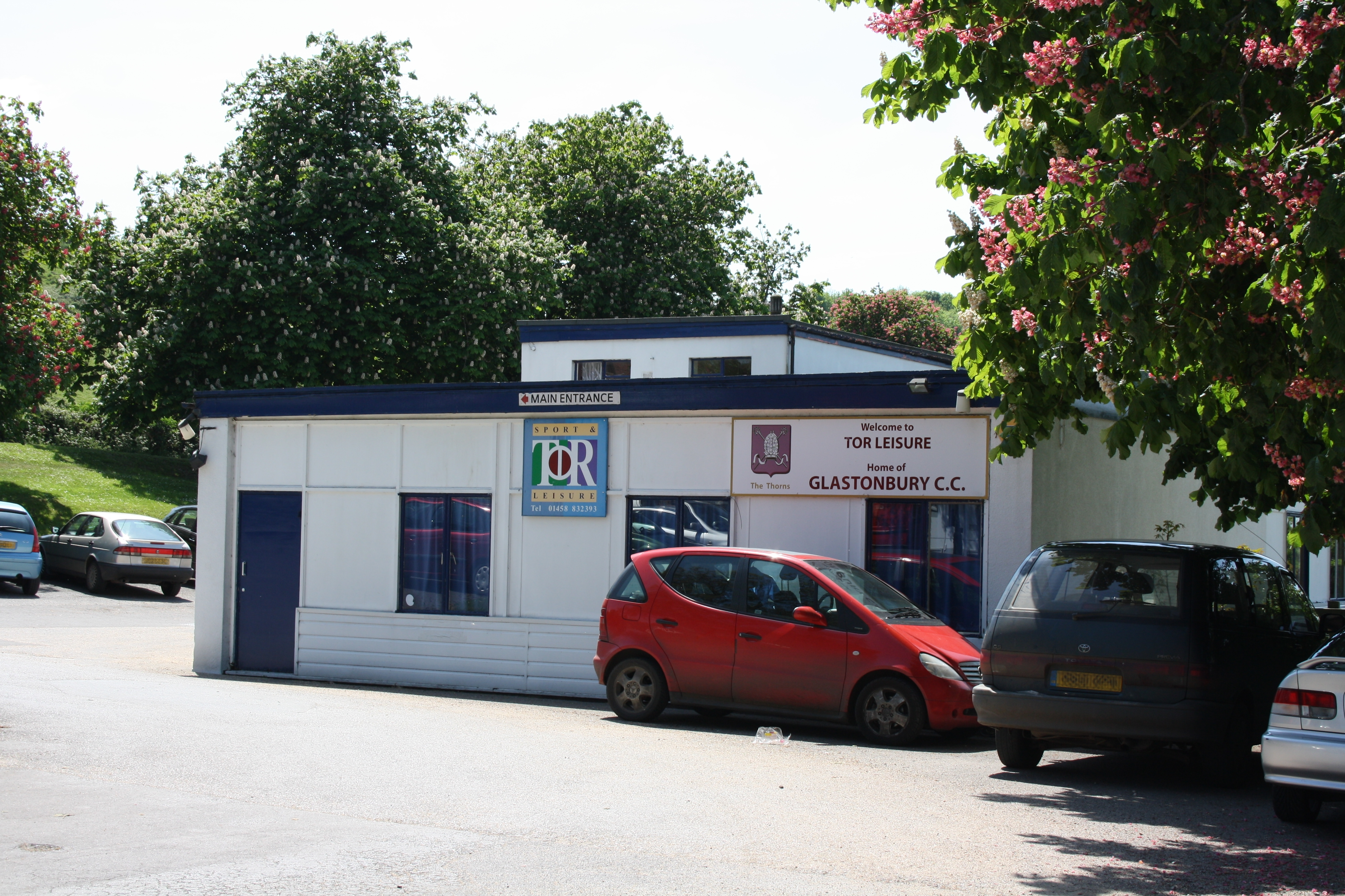 Tor Leisure, the home of Glastonbury Cricket Club. Number plates blurred out.